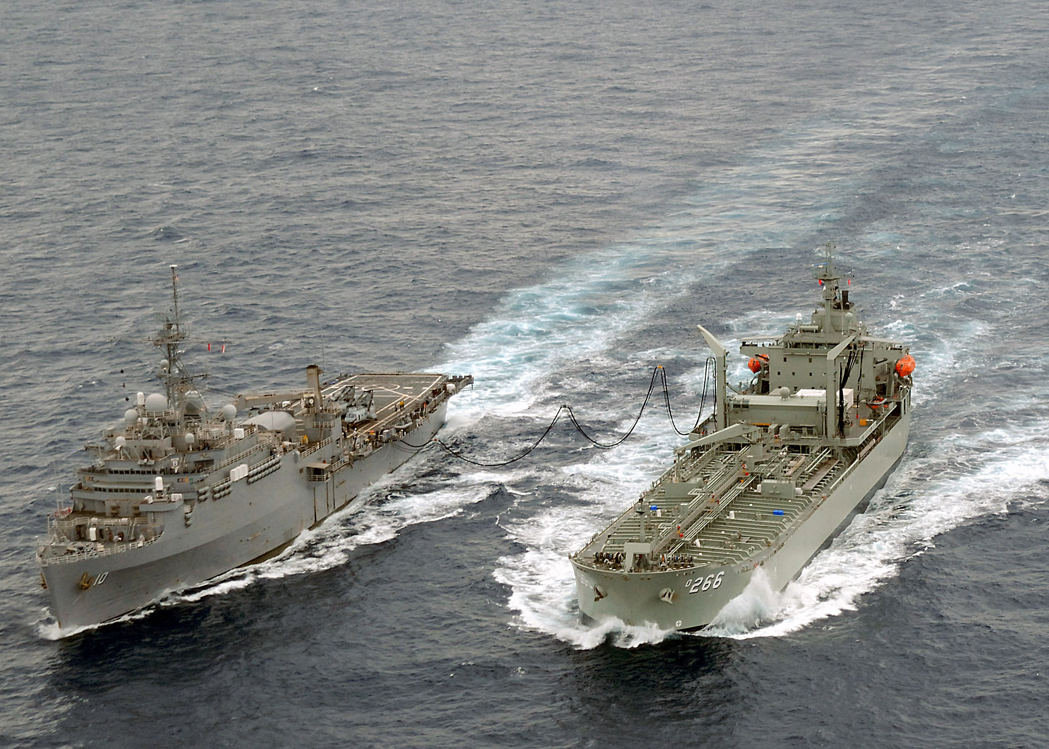 PACIFIC OCEAN (June 14, 2007) — Royal Australian Navy ship HMAS Sirius (OR-266) and amphibious transport dock USS Juneau (LPD-10) conducts a replenishment at sea (RAS). Juneau is participating in exercise Talisman Saber 07, a U.S. and Australian lead Joint Task Force operation preparing our militaries for crisis action planning and execution of contingency operations. Talisman Saber is designed to maintain a high level of interoperability between U.S. and Australian forces, demonstrating the U.S. and Australian commitment to our military alliance and regional security.